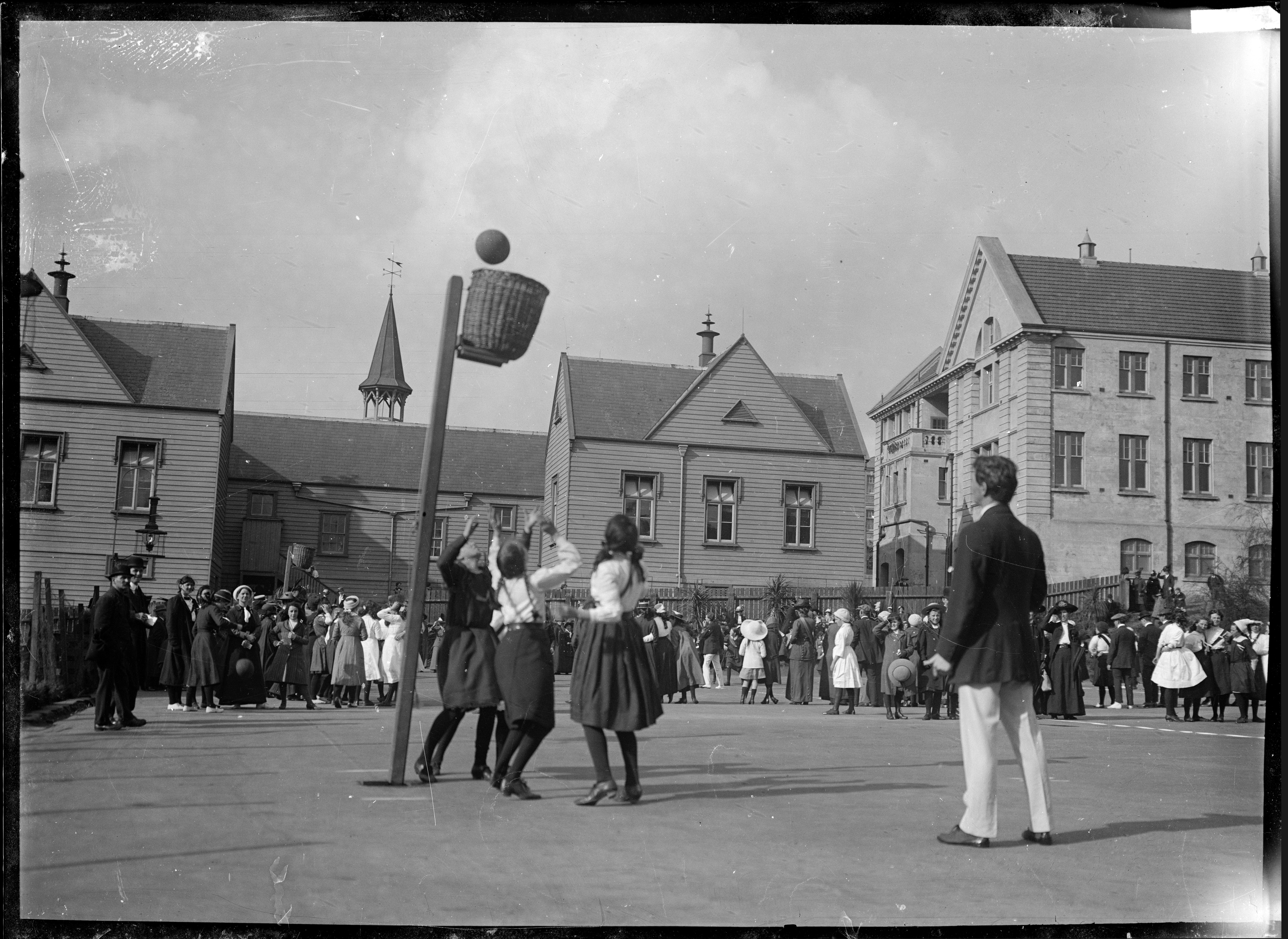 Netball game, [ca 1910] Reference number: 1/2-000260-G Photographer: William Archer Price Original negative Price Collection, Alexander Turnbull Library Unidentified location